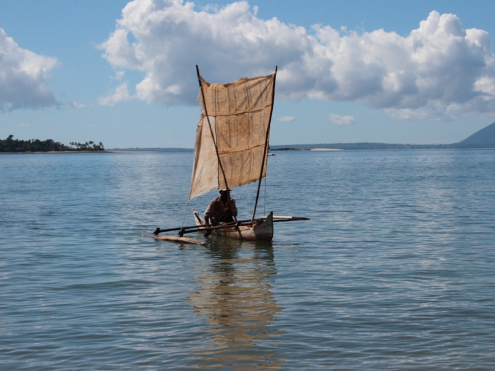 Boat, maybe a fisher boat, in Nosy Komba, Madagascar